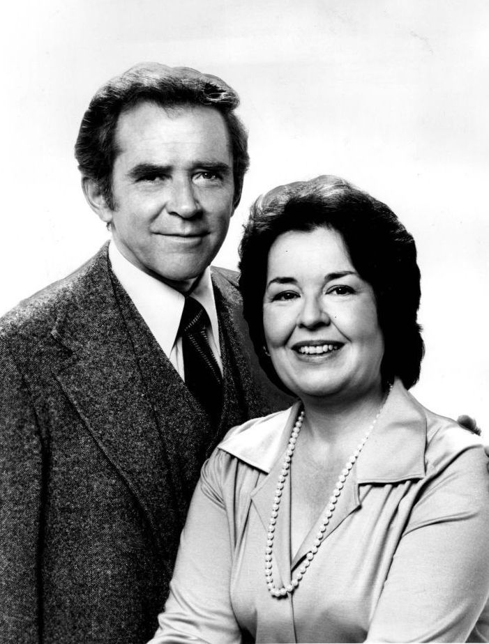 James Broderick and Sada Thompson on Family (1976)